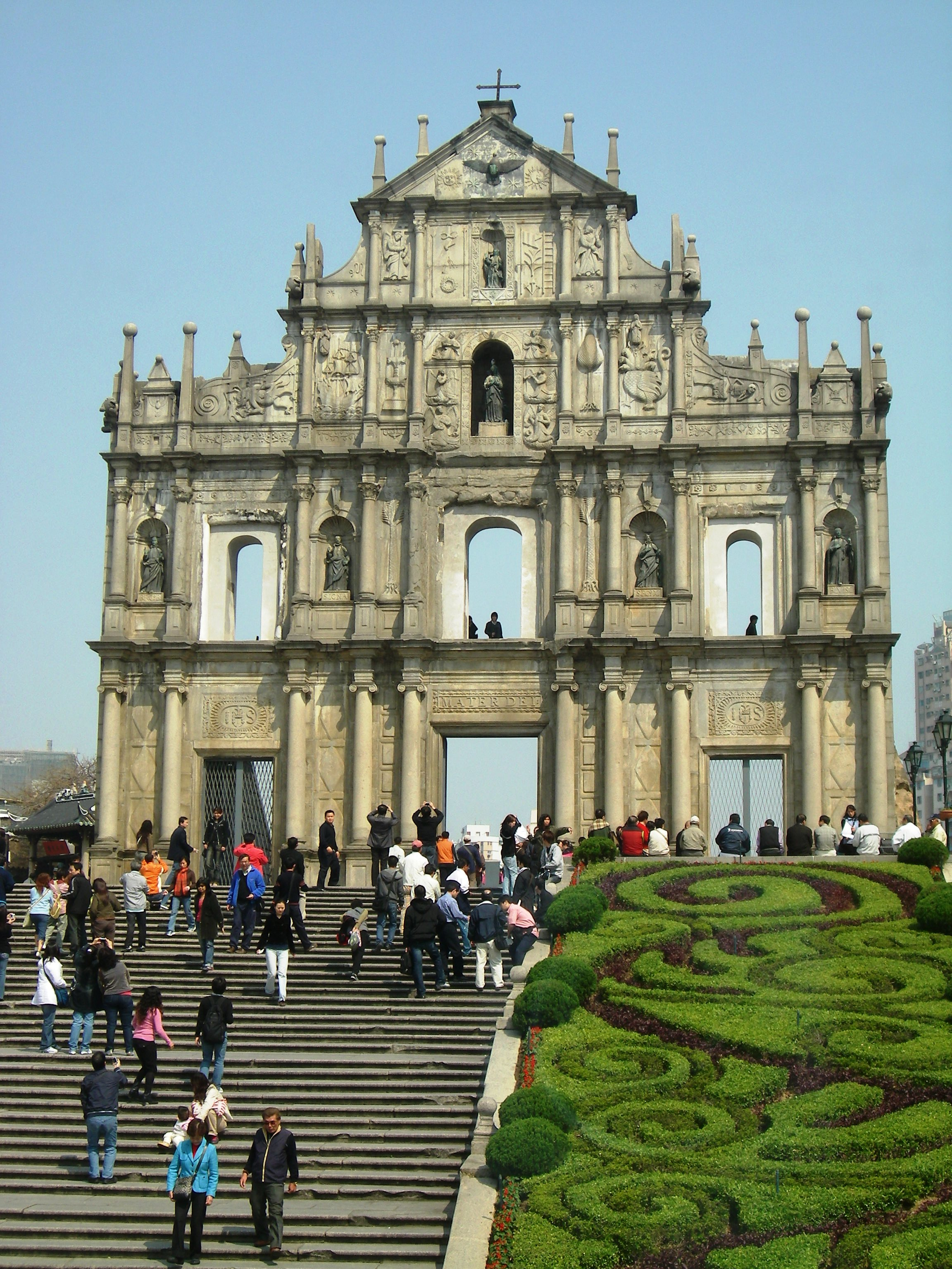 St Paul's Ruins from below, Macau